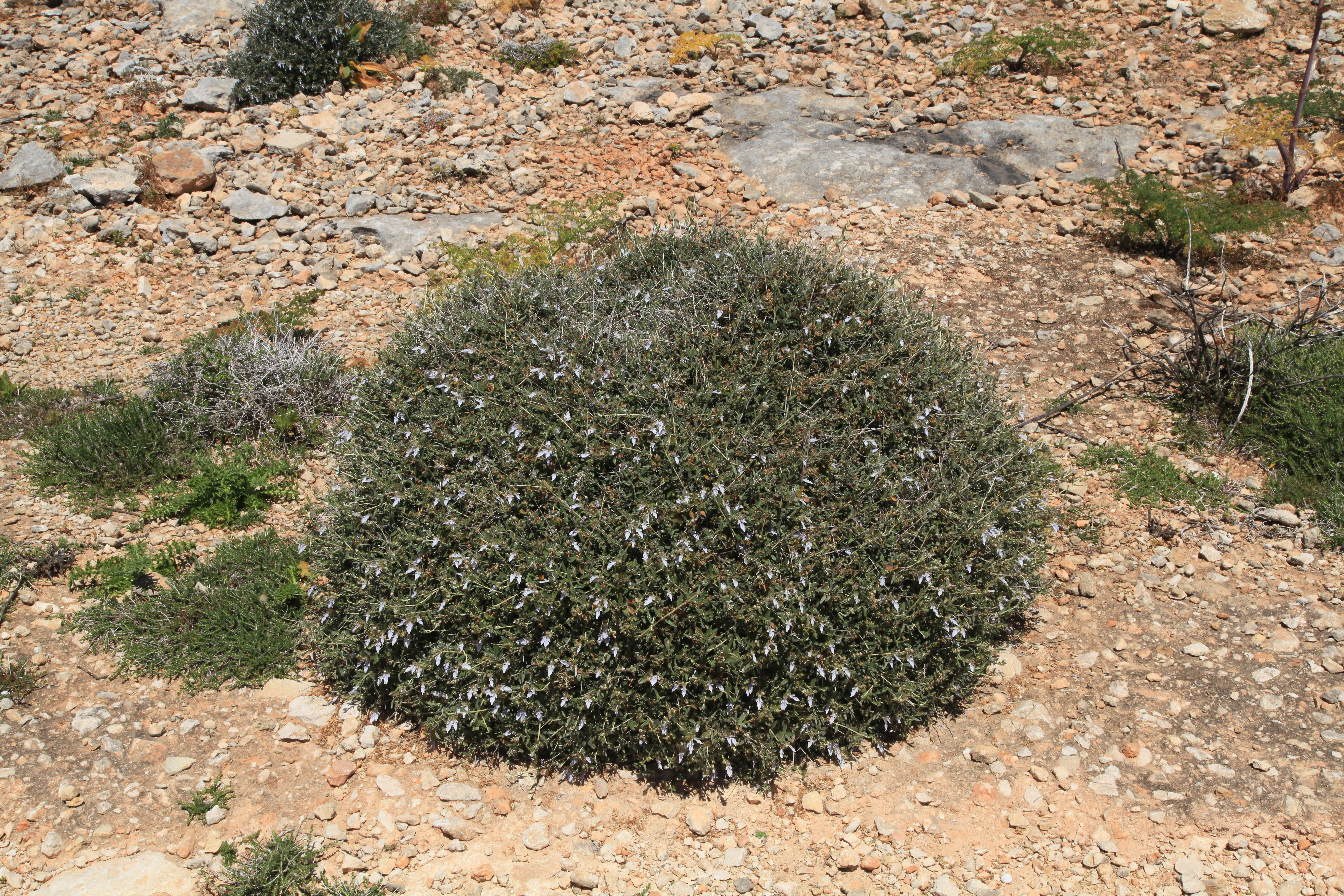 Teucrium fruticans growing on Comino in Għajnsielem, Malta